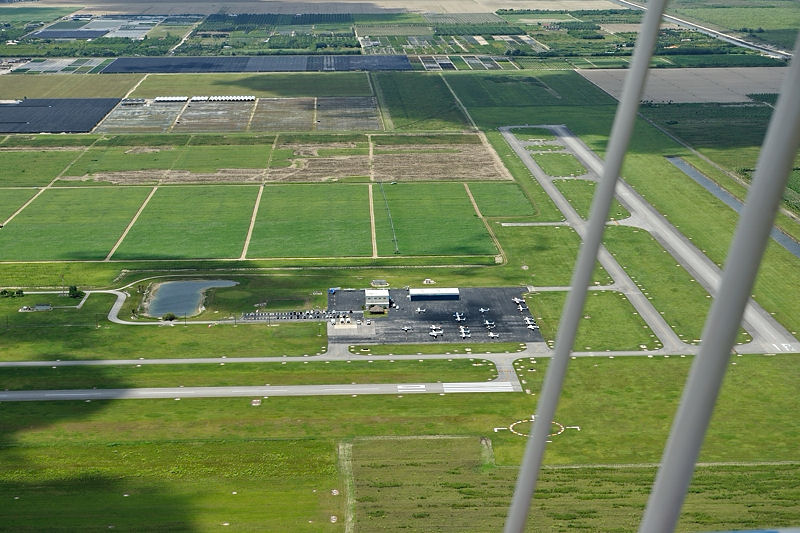 Homestead General Aviation Airport in Homestead, Florida